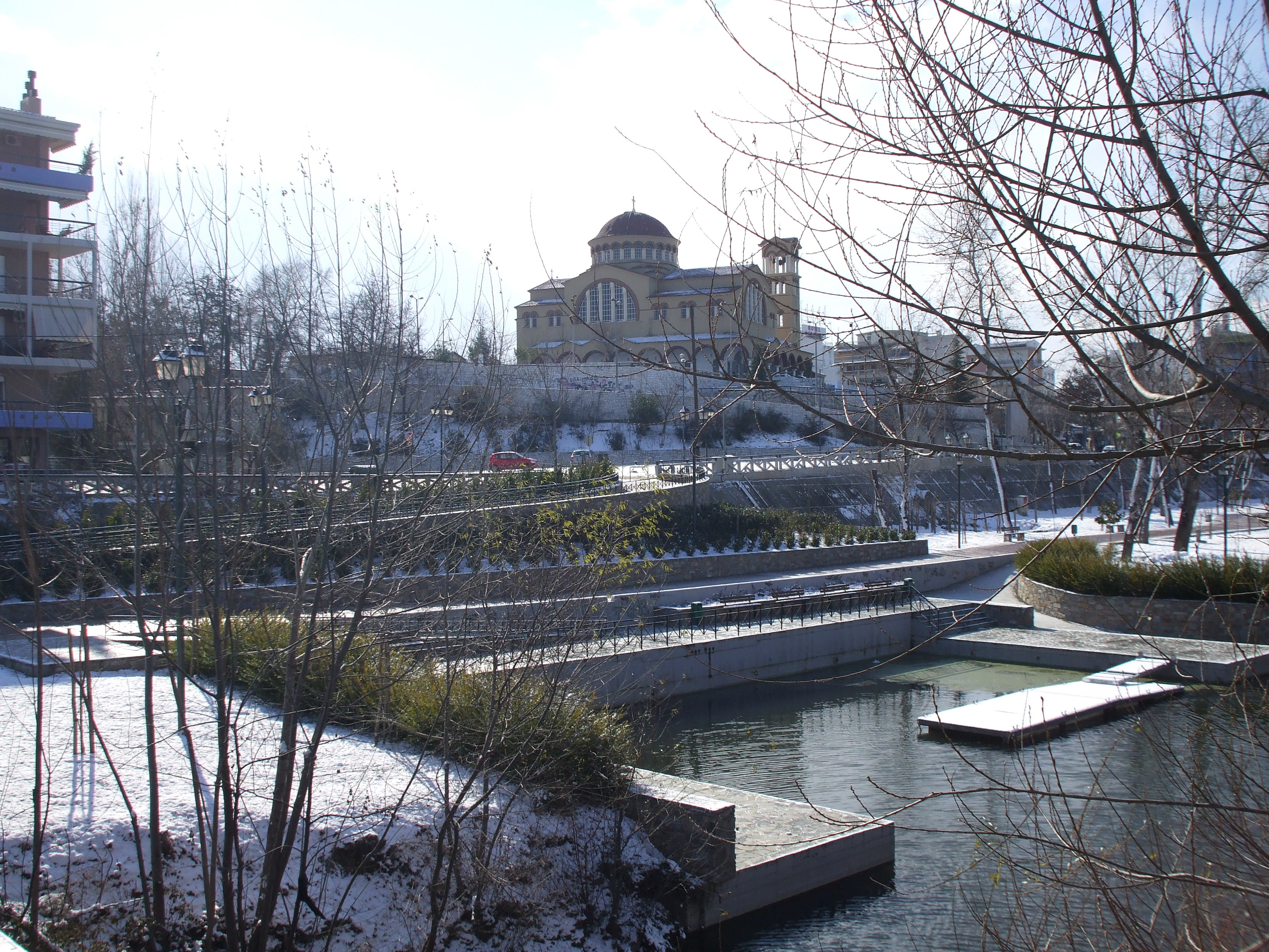 Larissa's cathedral of Saint Achilles